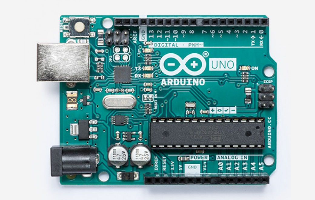 آردوینو اونو